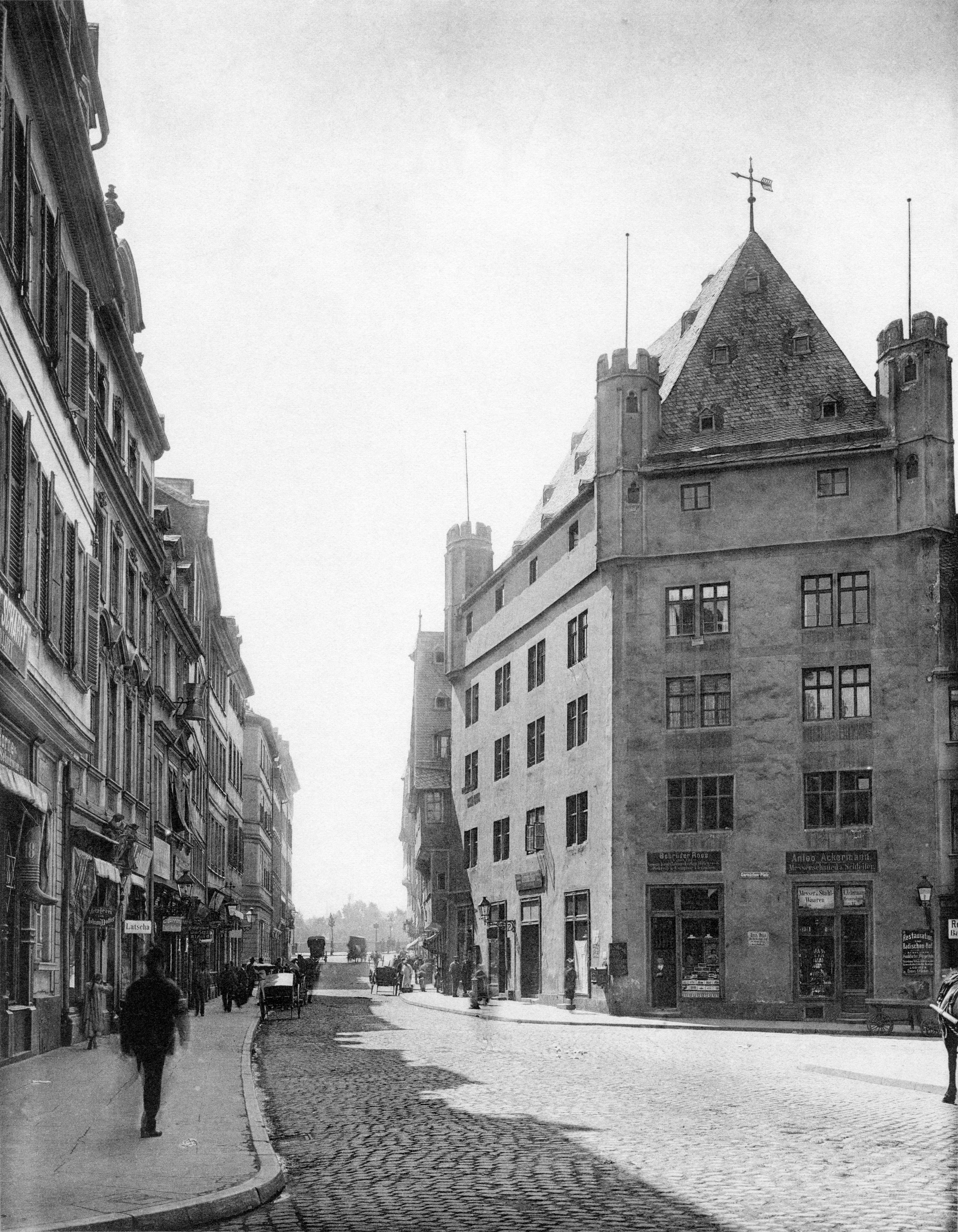 Issue 16, Table 189 / Title on the table: Fuersteneck (Fahrgasse) [Fahr Lane]. / Original description: [Follows]